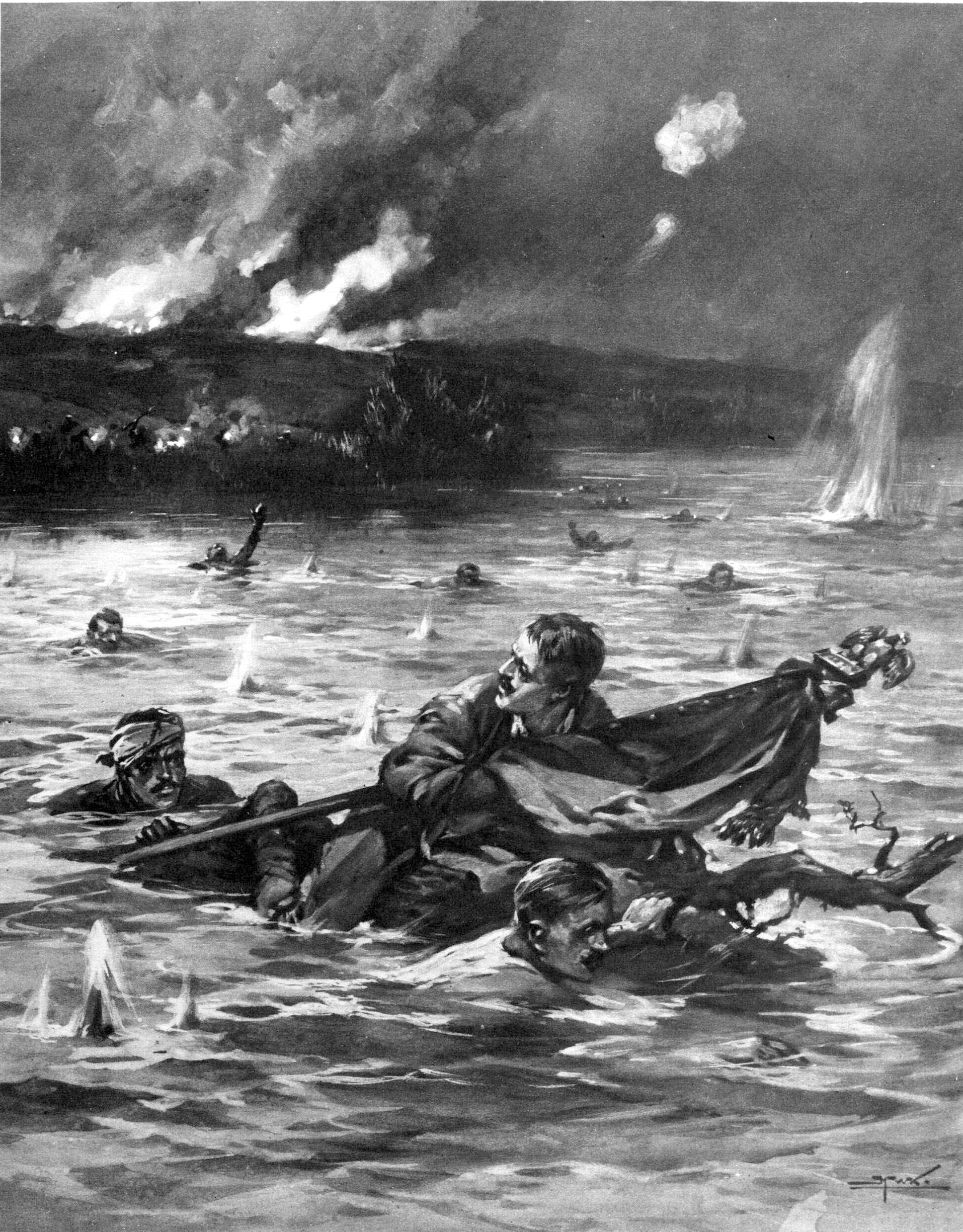 Roumanian Heroism - Swimming the Danube to Save the Colours THOUGH HUNDREDS OF BULLETS SPAT ROUND THEM . . . THEY SUCCEEDED IN THEIR GALLANT DEED " : THREE BRAVE ROUMANIANS SAVING REGIMENTAL COLOURS BY SWIMMING THE DANUBE AT TURTUICAIA. It will be recalled that the Germans and Bulgarians claimed an important victory over the Roumanians at Turtukaia (Tutrakan) on September 6, announcing the capture of over 20,000 men and 100 guns. The Roumanians, though faced by greatly superior numbers, inflicted very serious losses on the enemy. Our drawing illustrates a gallant deed performed on the evening of that day by two Roumanian officers and a non-commissioned officer. The correspondent who sends the sketch from which our drawing was made writes : "When it was seen that things were going against the Roumanians at Turtukaia, three soldiers of the 36th Regiment (Infantry) decided to risk swimming the Danube in order to save the colours of the regiment. These were Second Lieuts. Aurel Mihnilescu and Dimitrie Manu, with Sergt.-Major Constantine Sava. Though under a heavy fire from the banks, where the Bulgars were shooting everyone who tried to escape by this means, they put Lieut. Manu on the trunk of a tree, as he did not know how to swim. The others swam pushing the trunk with its precious load before them, and, though hundreds of bullets spat round them, not one was hit, and they succeeded in their gallant deed. The River Danube is here a quarter of a mile wide, the current extremely rapid."—[Drawing Copyrighted is the United States and Canada.)